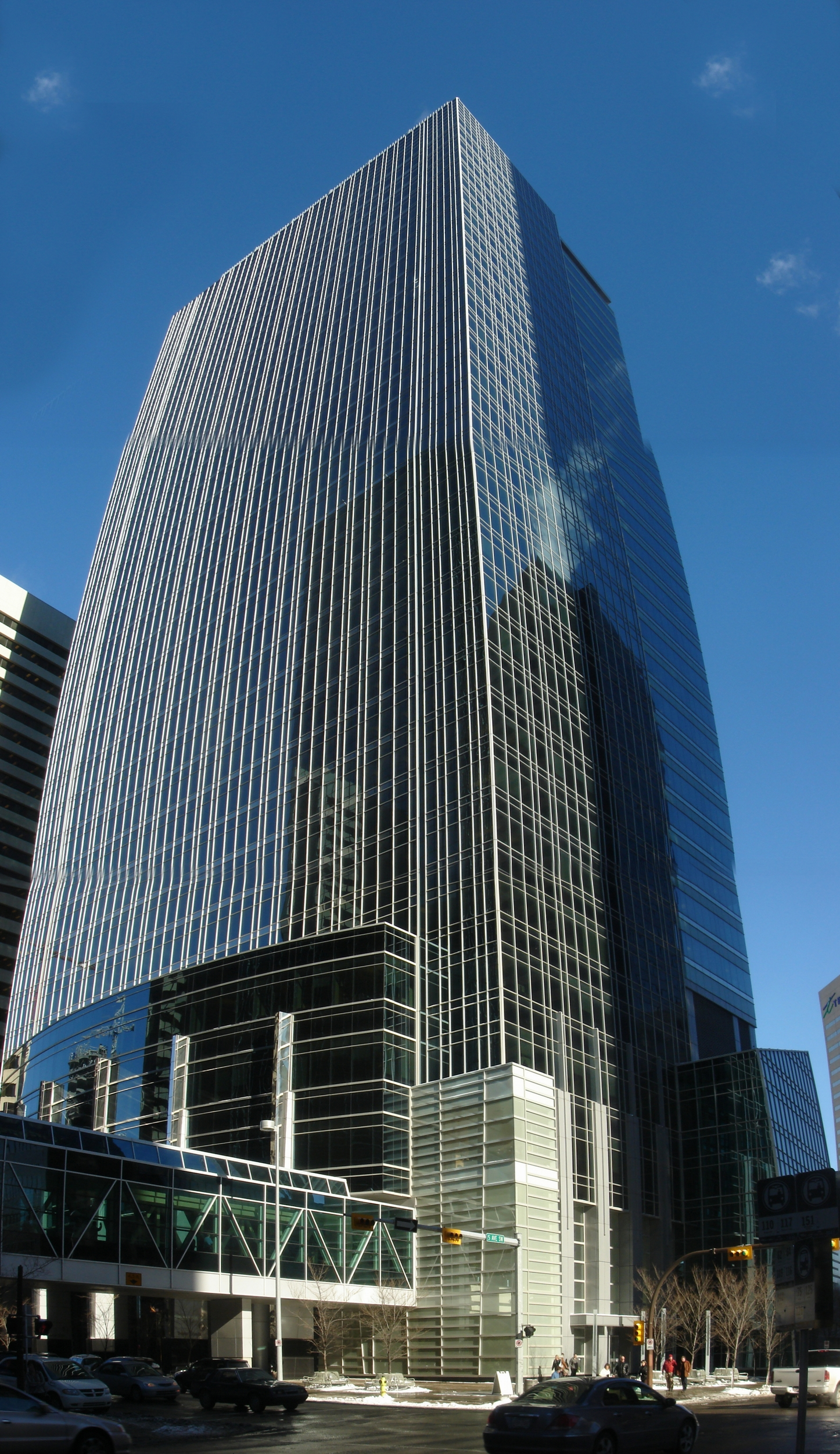 Trans Canada Tower, Calgary Alberta